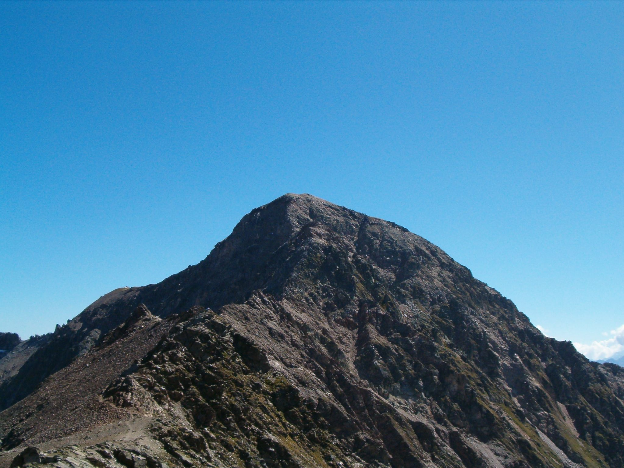 Aroser Rothorn from north-west, Plessur Range